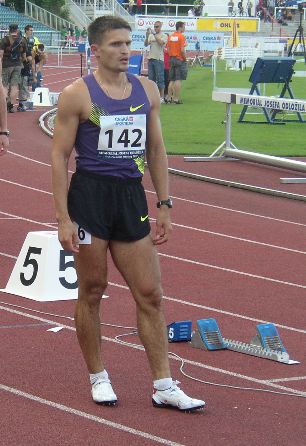 Athlete Aleksandr Derevyagin of Russia before his start in men's 400 m hurdles race at 17th edition of the Josef Odložil Memorial (EAA Premium Meeting, Na Julisce Stadium, Prague, Czech Republic, 14 June 2010). Derevyagin ranked third in 50.12 s.